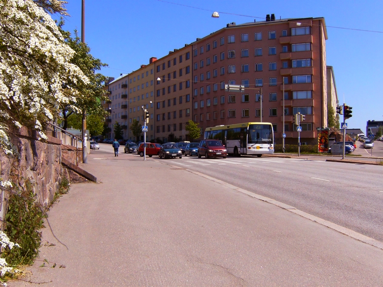 The south-western section of the street Sturenkatu in Helsinki, Finland